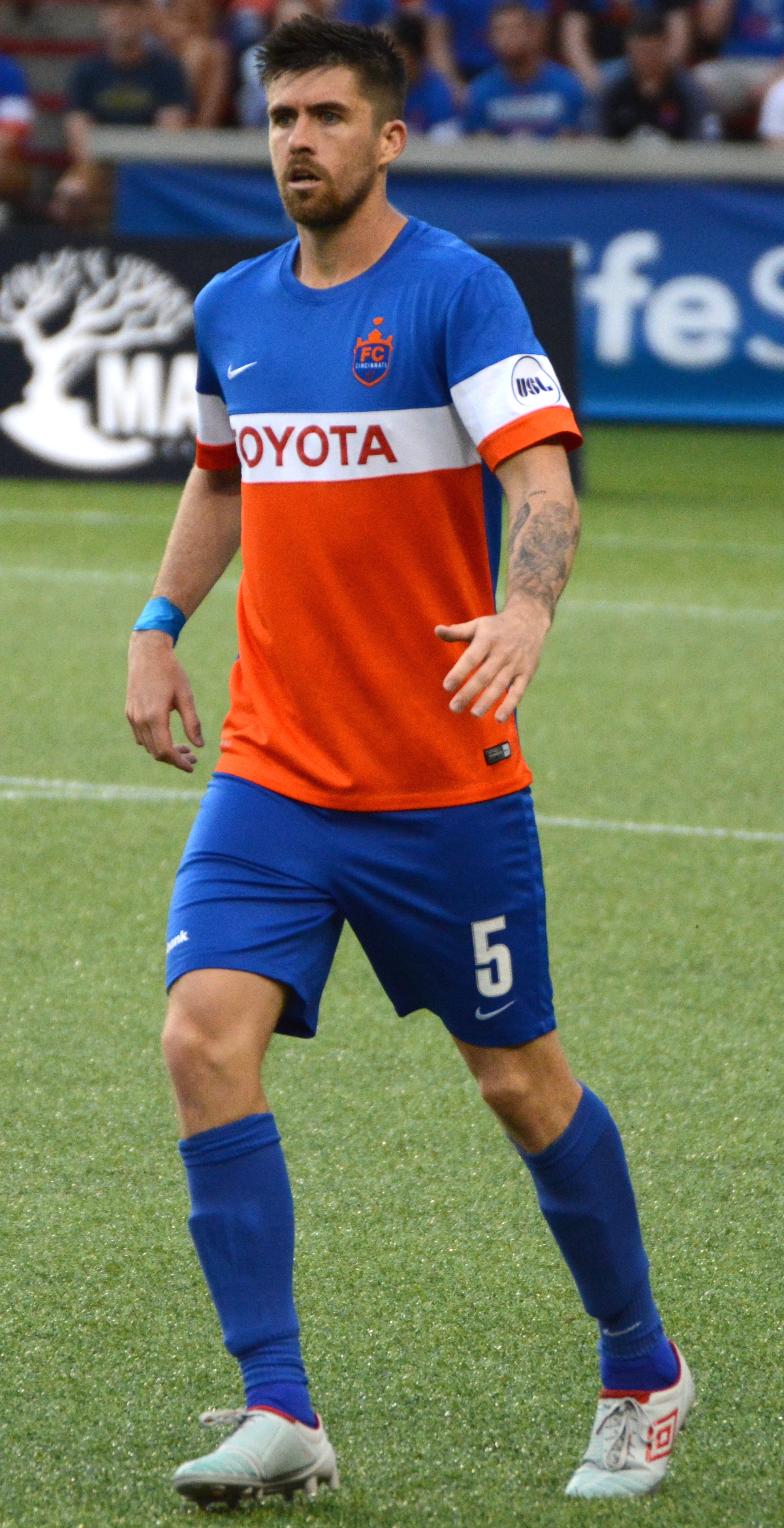 Aodhan Quinn Taken during a match between FC Cincinnati and Bethlehem Steel FC at Nippert Stadium in Cincinnati, USA on May 20, 2017.